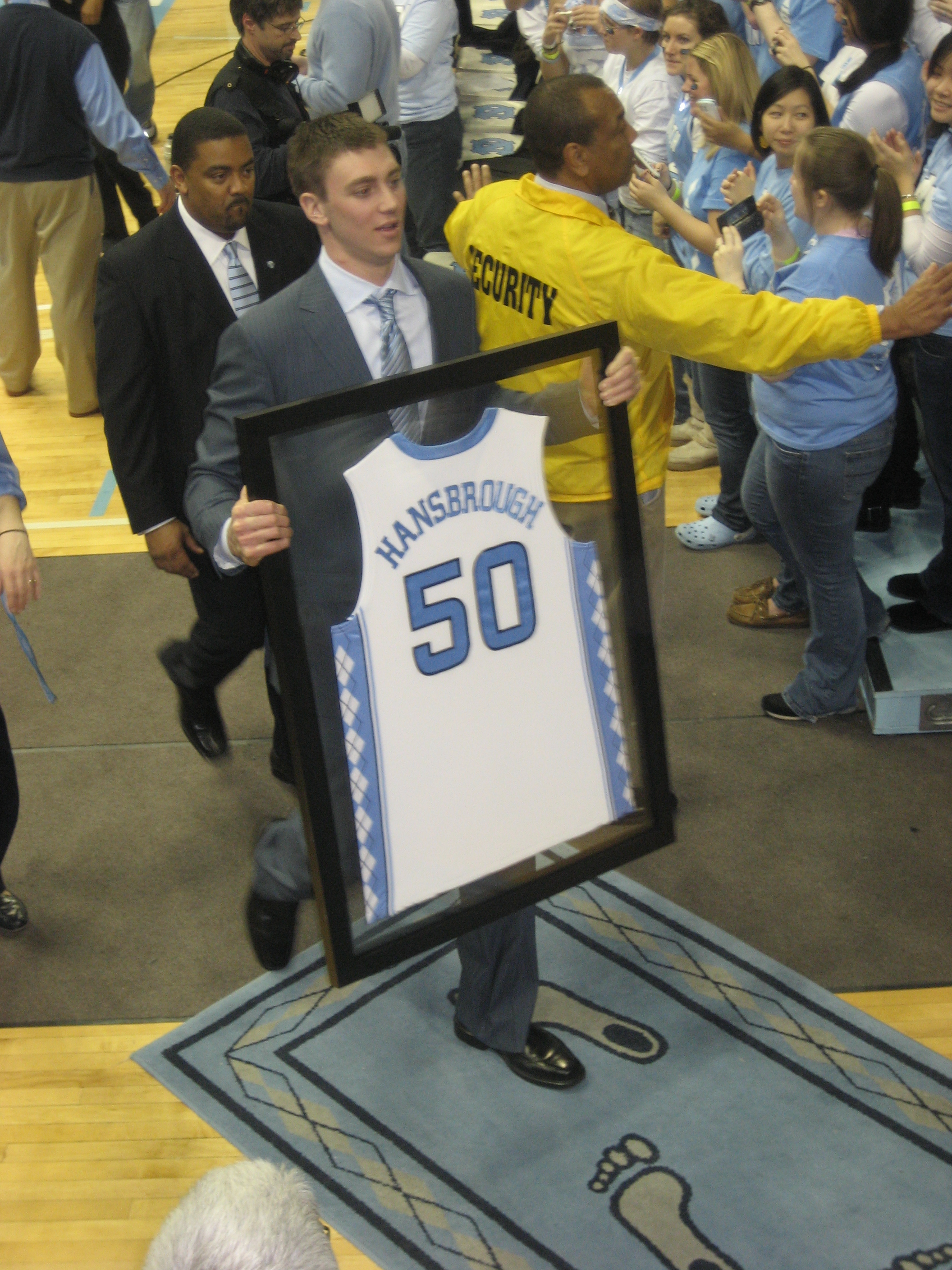 Tyler Hansbrough walking back to the tunnel after his jersey is retired at UNC-Chapel Hill on February 10, 2010.